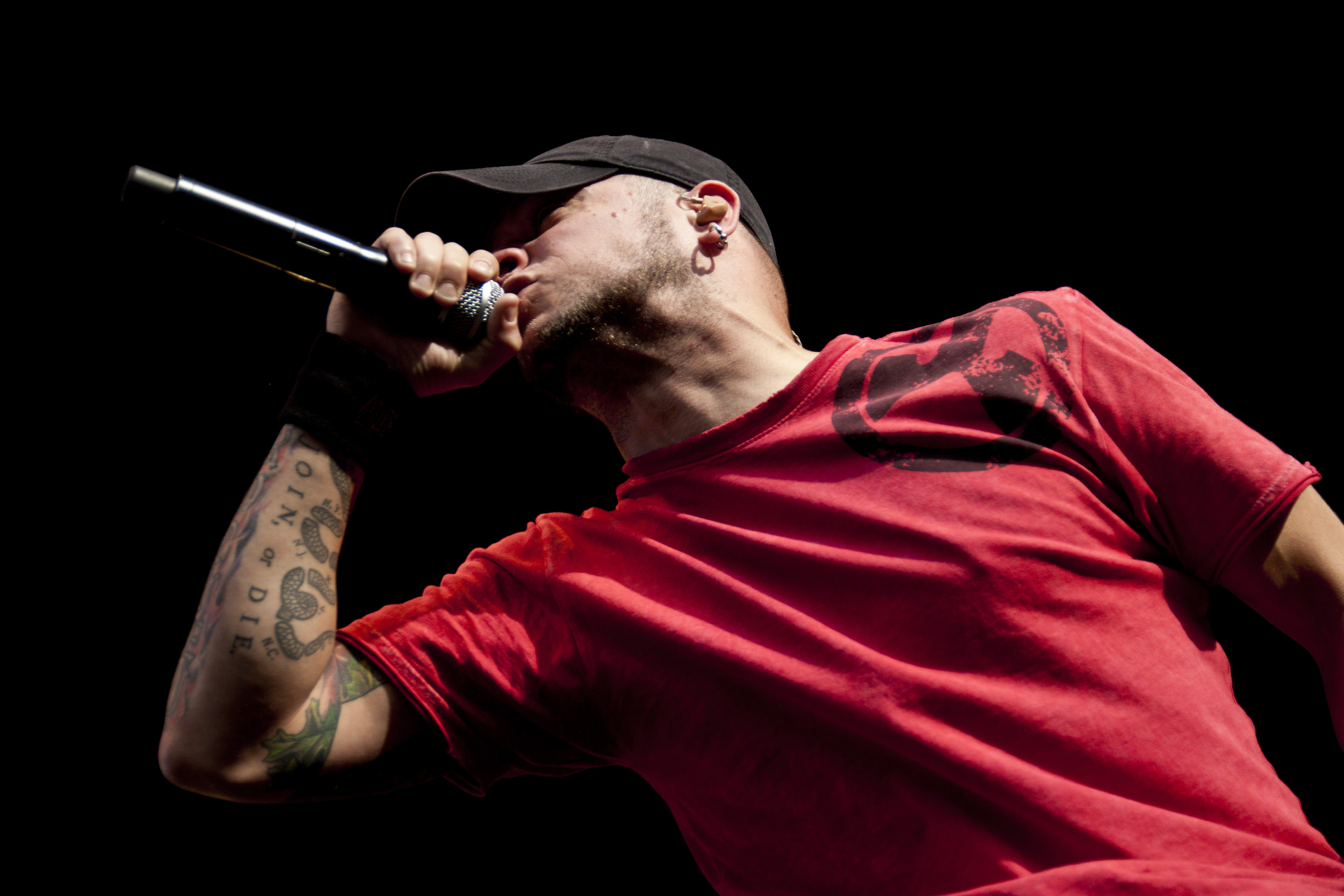 Photo by Kasey Jean Noll